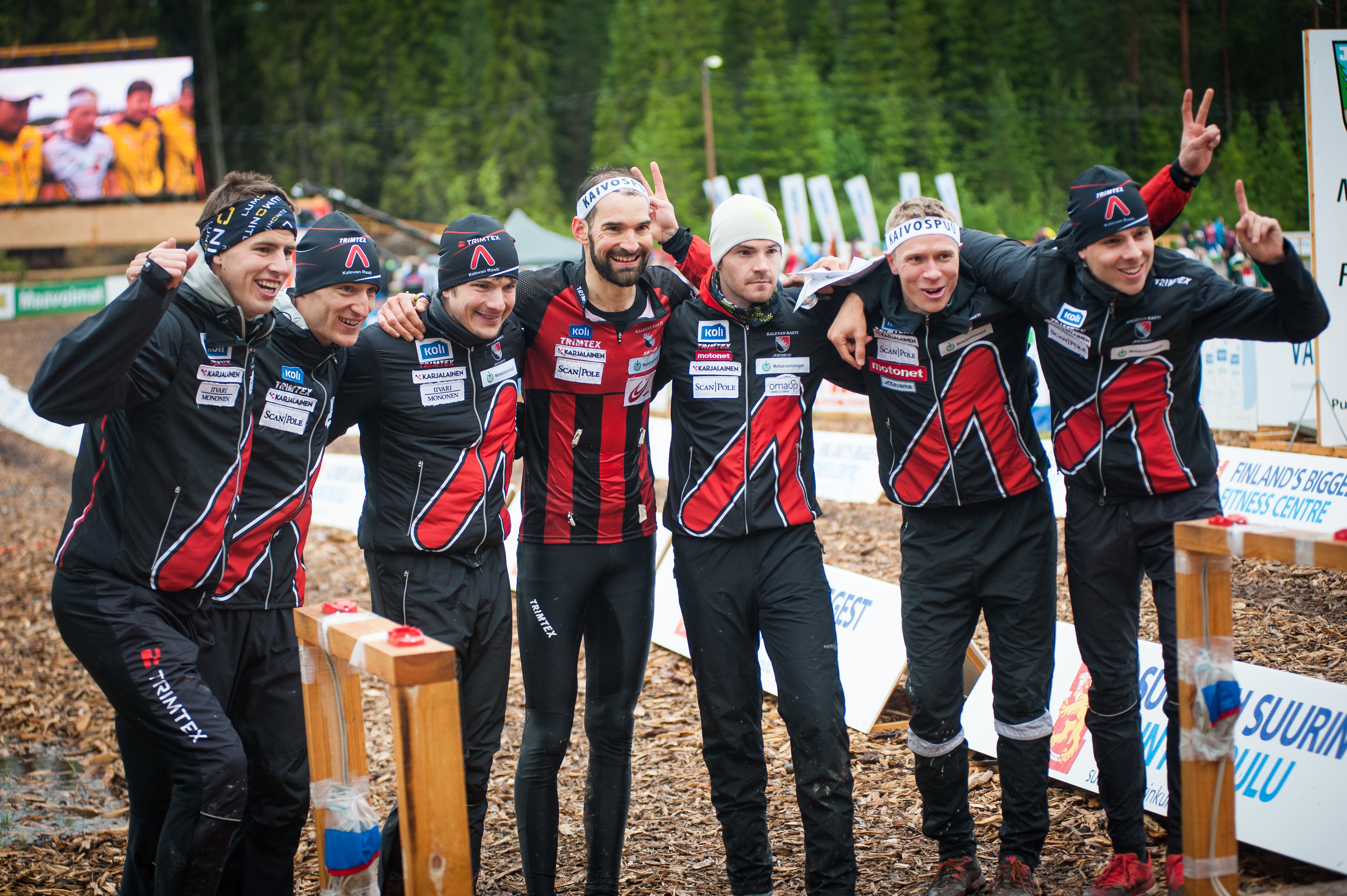 The orienteering competition Jukola relay in Lappeenranta, Finland.